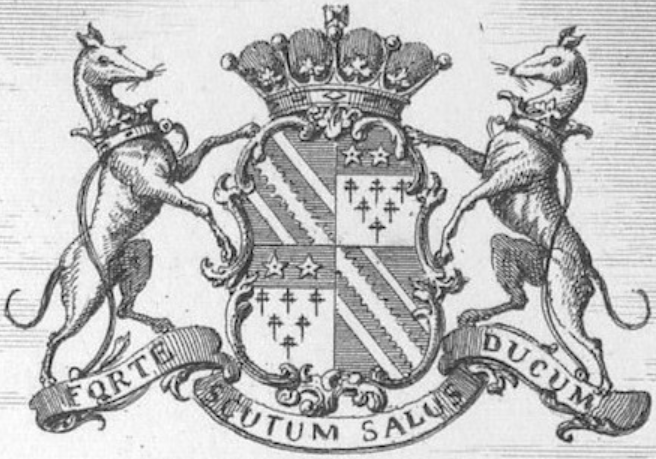 Arms of Hugh Fortescue, 1st Earl Clinton, 14th Baron Clinton (1696–1751), (Fortescue quartering Clinton), detail from top right of an engraving of Castle Hill, Filleigh, Devon, built by the earl. See File:CastleHill Filleigh TempEarlClinton.png